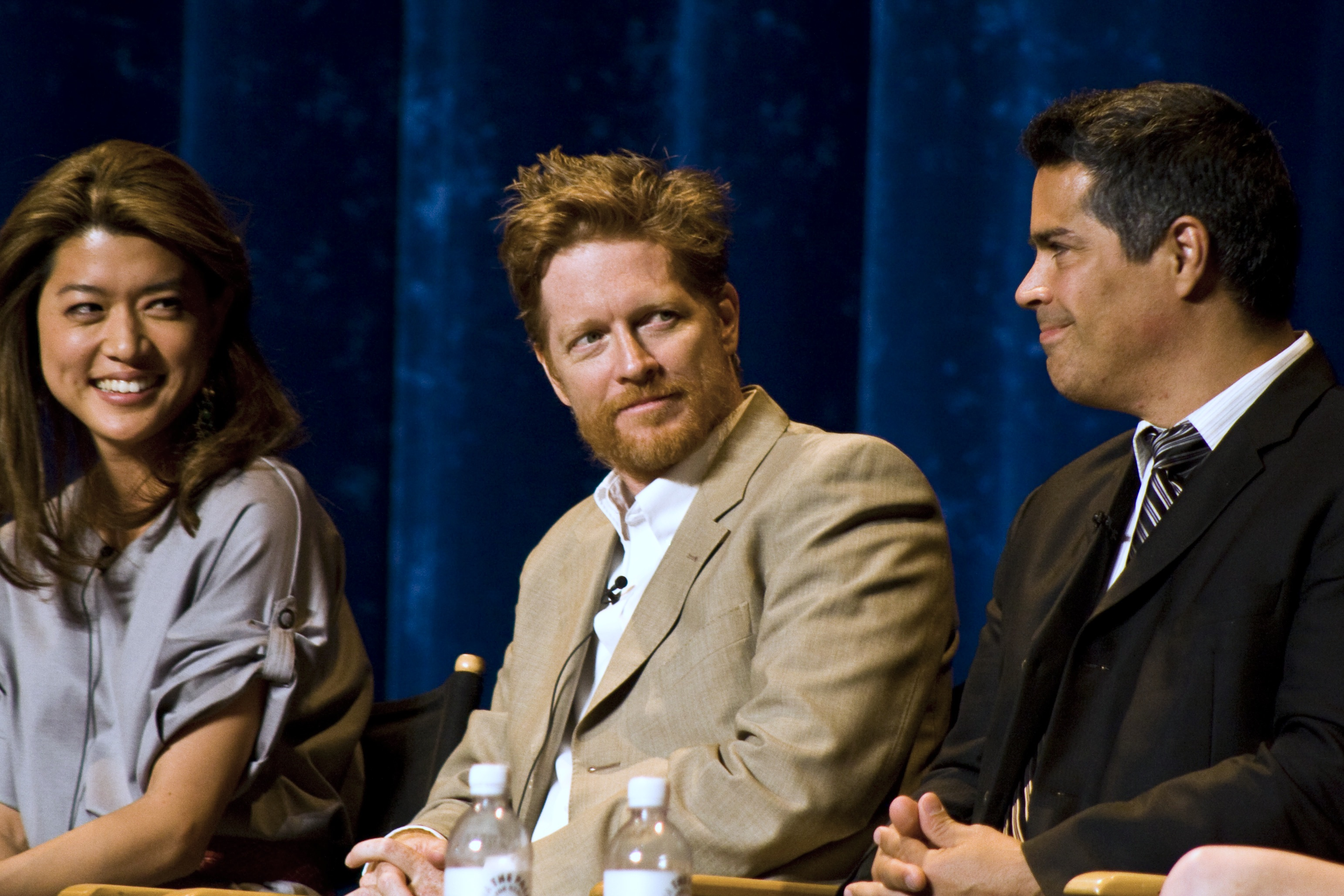 Actors Grace Park, Eric Stoltz and Esai Morales at the 2009 Paleyfest, taking part of the Battlestar Galactica/Caprica panel.